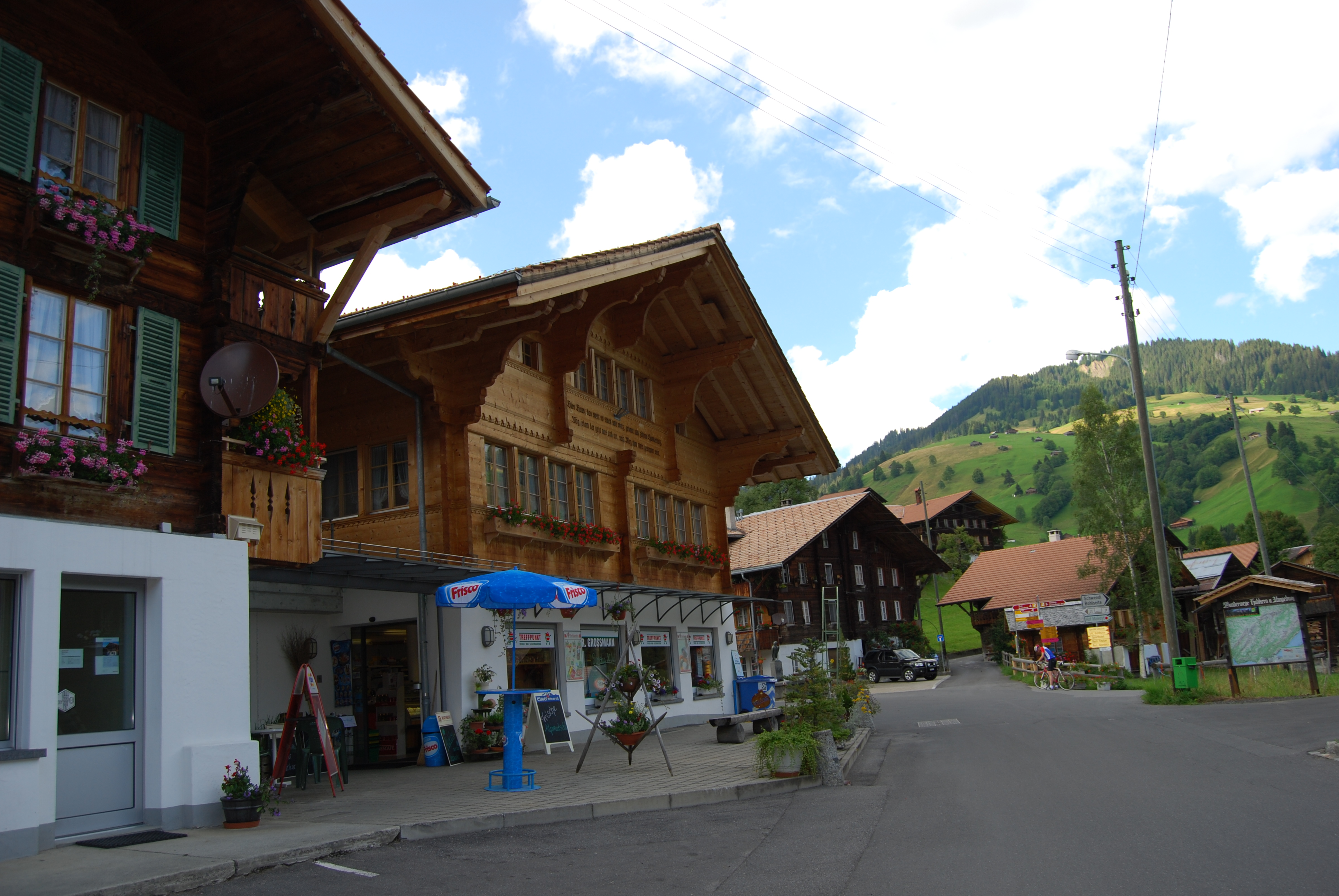 Habkern, canton of Bern, SwitzerlandEsperanto: Habkern, Kantono Berno, Svislando